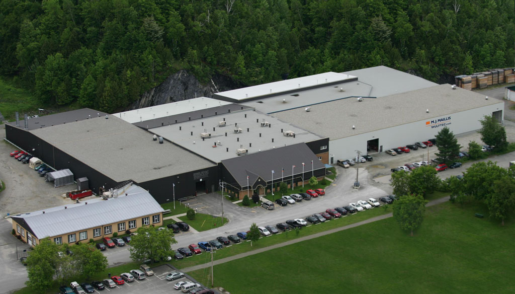 Aerial view of the Wulftec plant